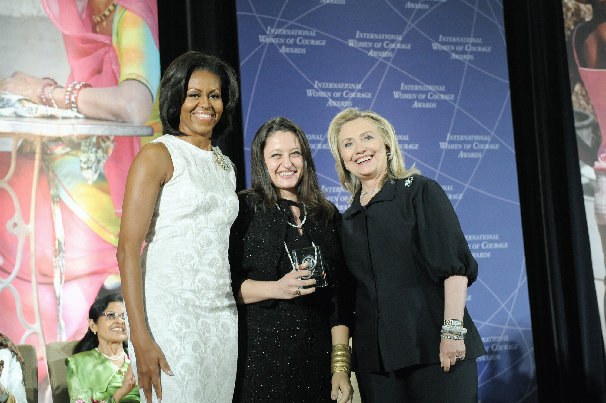 U.S. Secretary of State Hillary Rodham Clinton, right; and First Lady Michelle Obama, left; pose for a photo with 2012 International Women of Courage (IWOC) Award Winner Safak Pavey of Turkey, at the U.S. Department of State in Washington, D.C., on March 8, 2012. [State Department photo/ Public Domain]